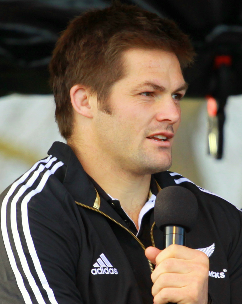 New Zealand rugby union player Richie McCaw and the rest of the All Blacks visit Christchurch during the Rugby World Cup.